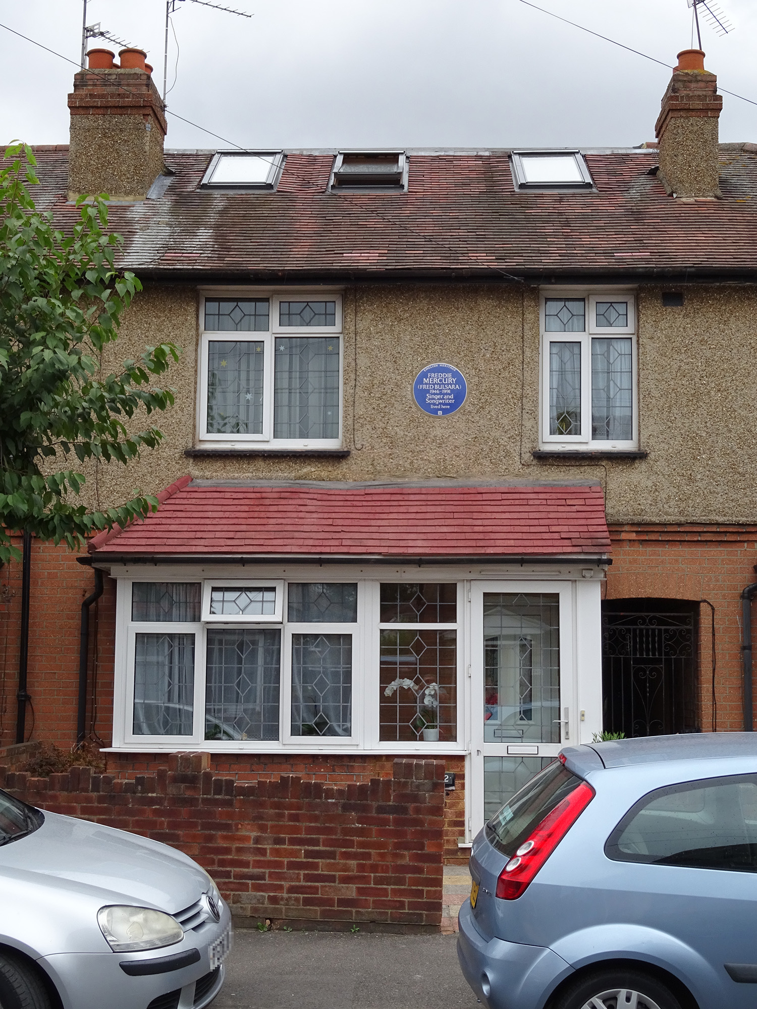 FREDDIE MERCURY (FRED BULSARA) 1946-1991 Singer and Songwriter lived here - 22 Gladstone Avenue, Feltham, London TW14 9LL